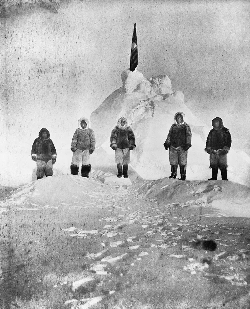 Matthew Henson (center) and four Inuit guides (Ooqeah, Ootah, Egingwah, and Seeglo).